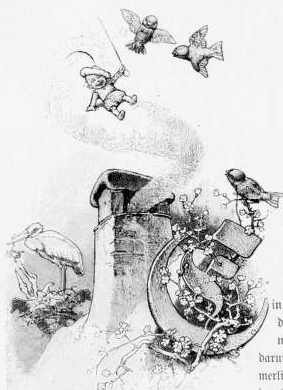 illustration of the Brothers Grimm fairy tale "Thumbling's_Travels"